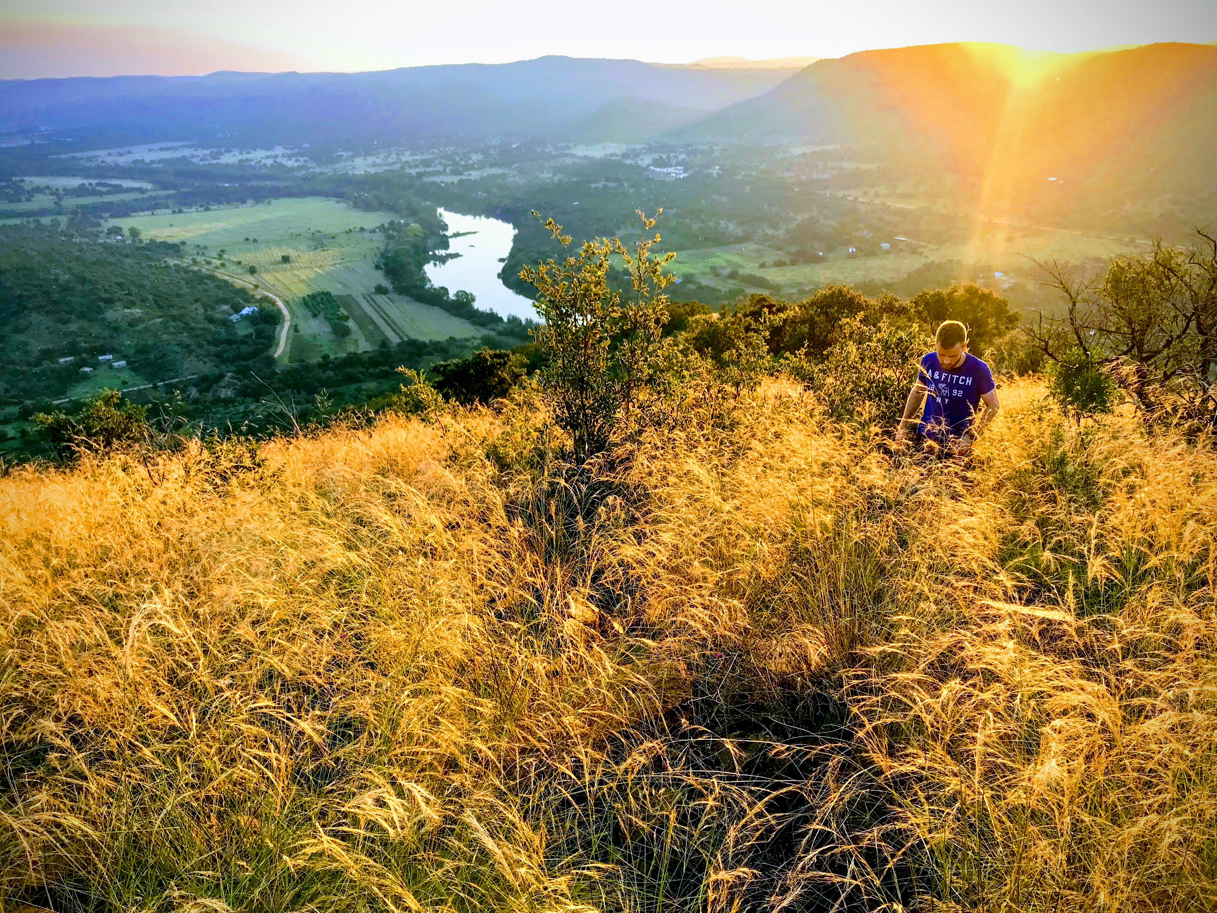 This is the view from the top of Assvoelkop in the heart of the Vredefort Crater with the Vaal River in the distance.